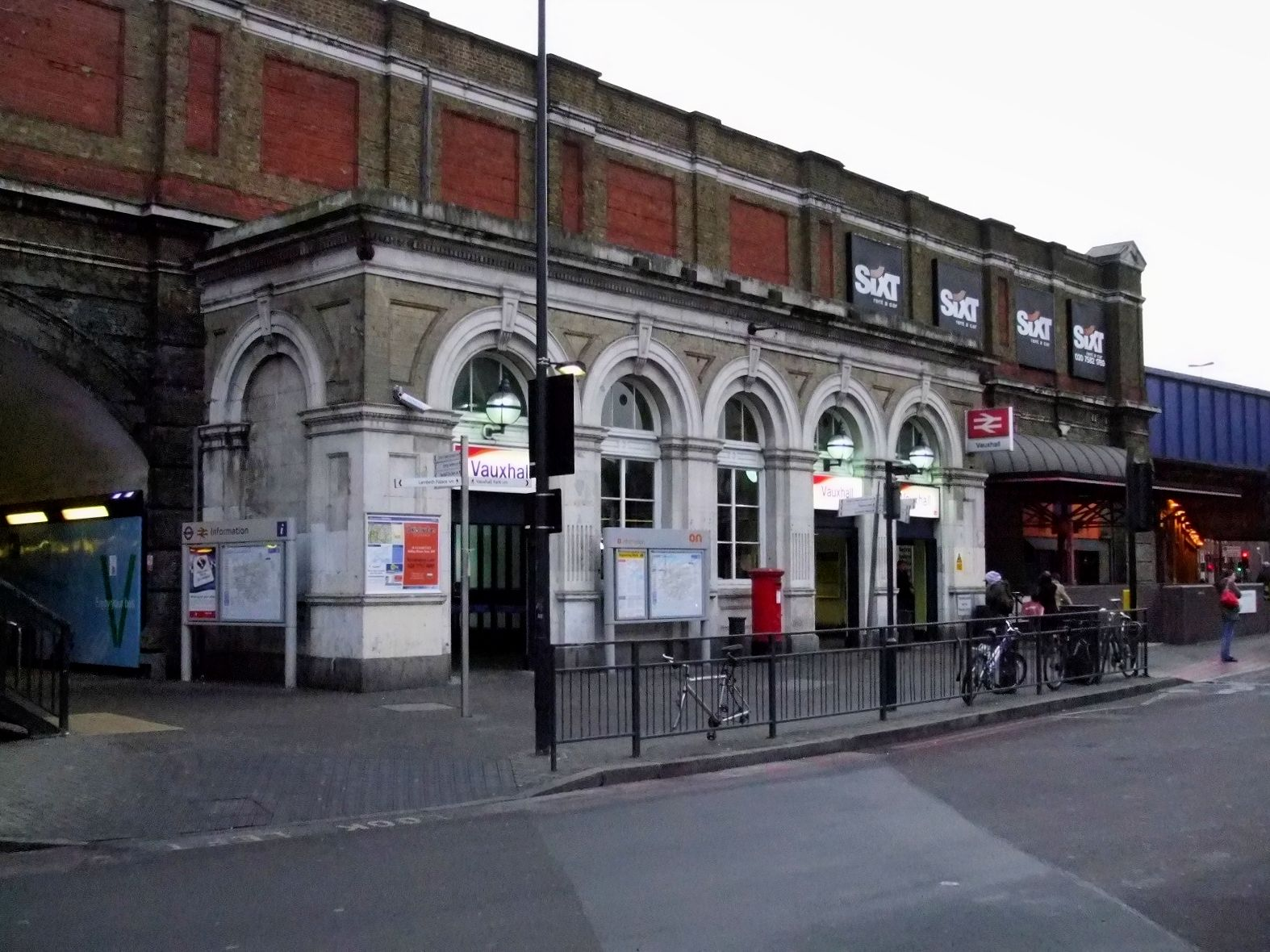 Vauxhall mainline station building on the northern (London-bound) side. The nearest entrance to the tube station is just to the right of the National Rail symbol.